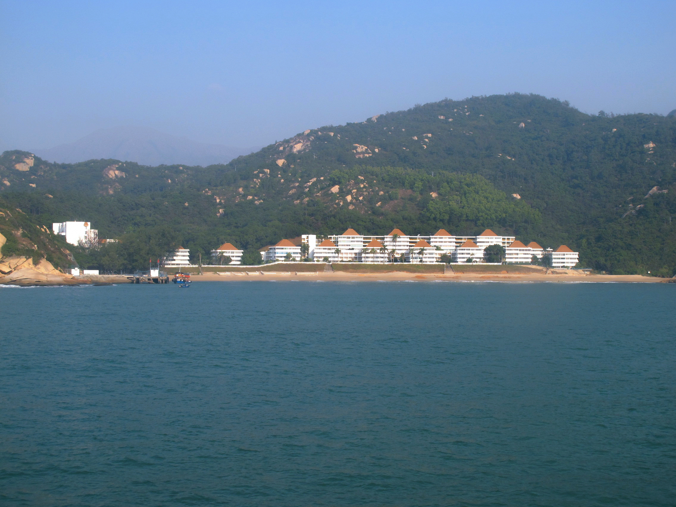 Sea Ranch 澄碧邨